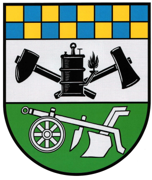 Coat of arms of Altlay